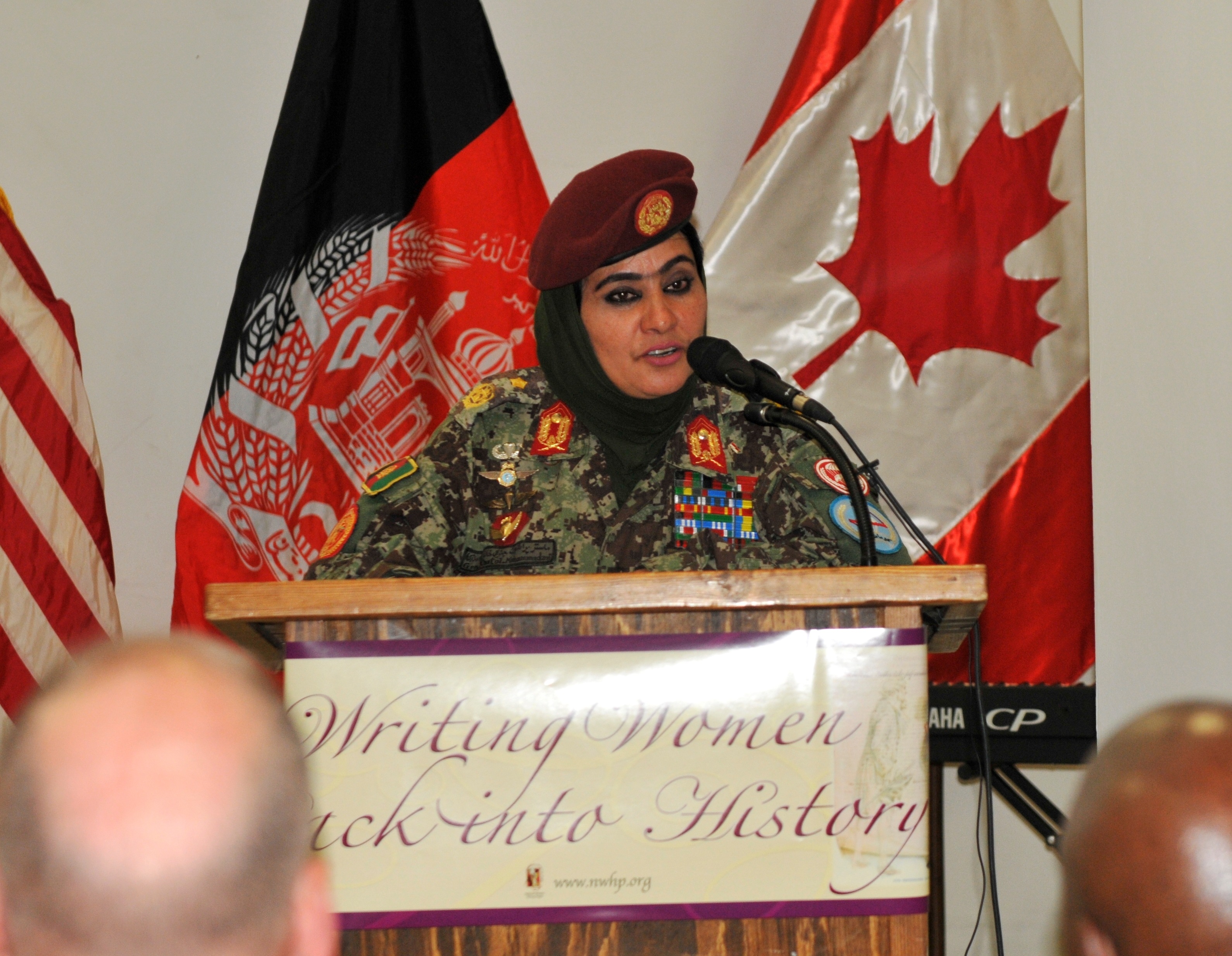 Afghan Army Brig. Gen. Khatool Mohammadzai, the director of education and training, Afghan Ministry of Defense, and a featured guest speaker for the International Security Force-Afghanistan Women’s Equality Day, takes a moment to reflect on human rights during the Women’s Equality celebration in Kabul, Afghanistan, Aug. 26, 2013. (U.S. Army photo by Sgt. 1st Class Timothy Lawn/Released)